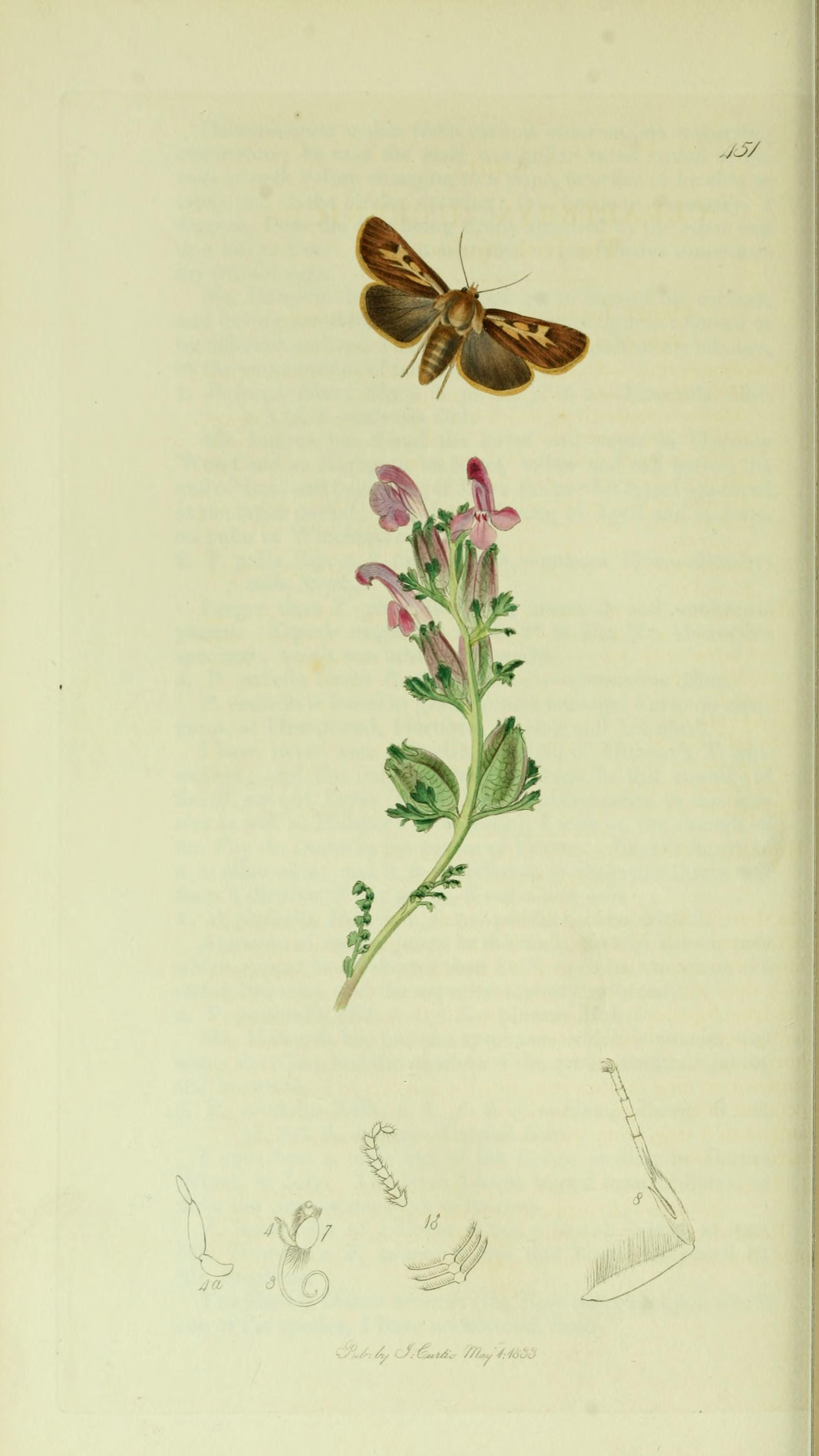 An illustration from British Entomology by John Curtis. Cerapteryx hibernicus or Cerapteryx graminis ab. hibernicus (Antler).